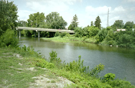 West Fork White River in Anderson, Indiana